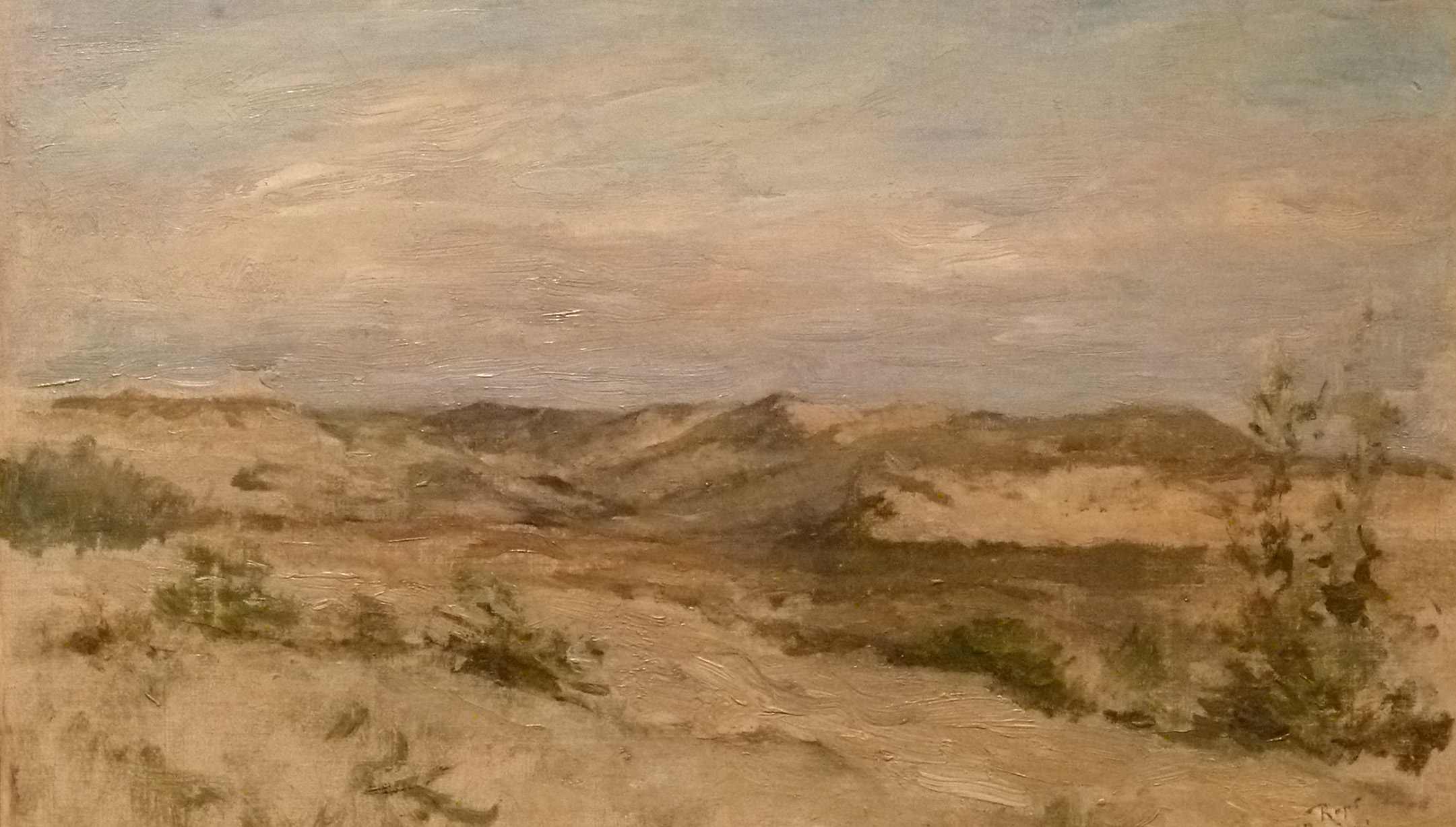 "Heyst, 1881" oil on canvas (27 x 41 cm) by the Belgian painter Félicien Rops (1833-1898);private collection